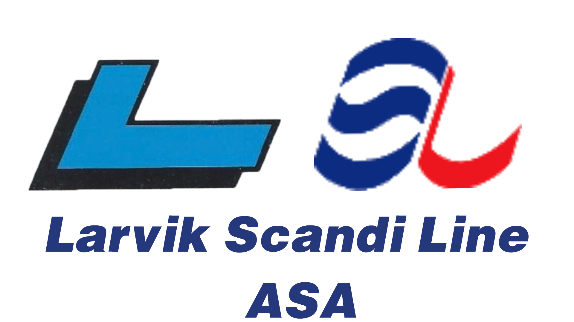 LSL 1994